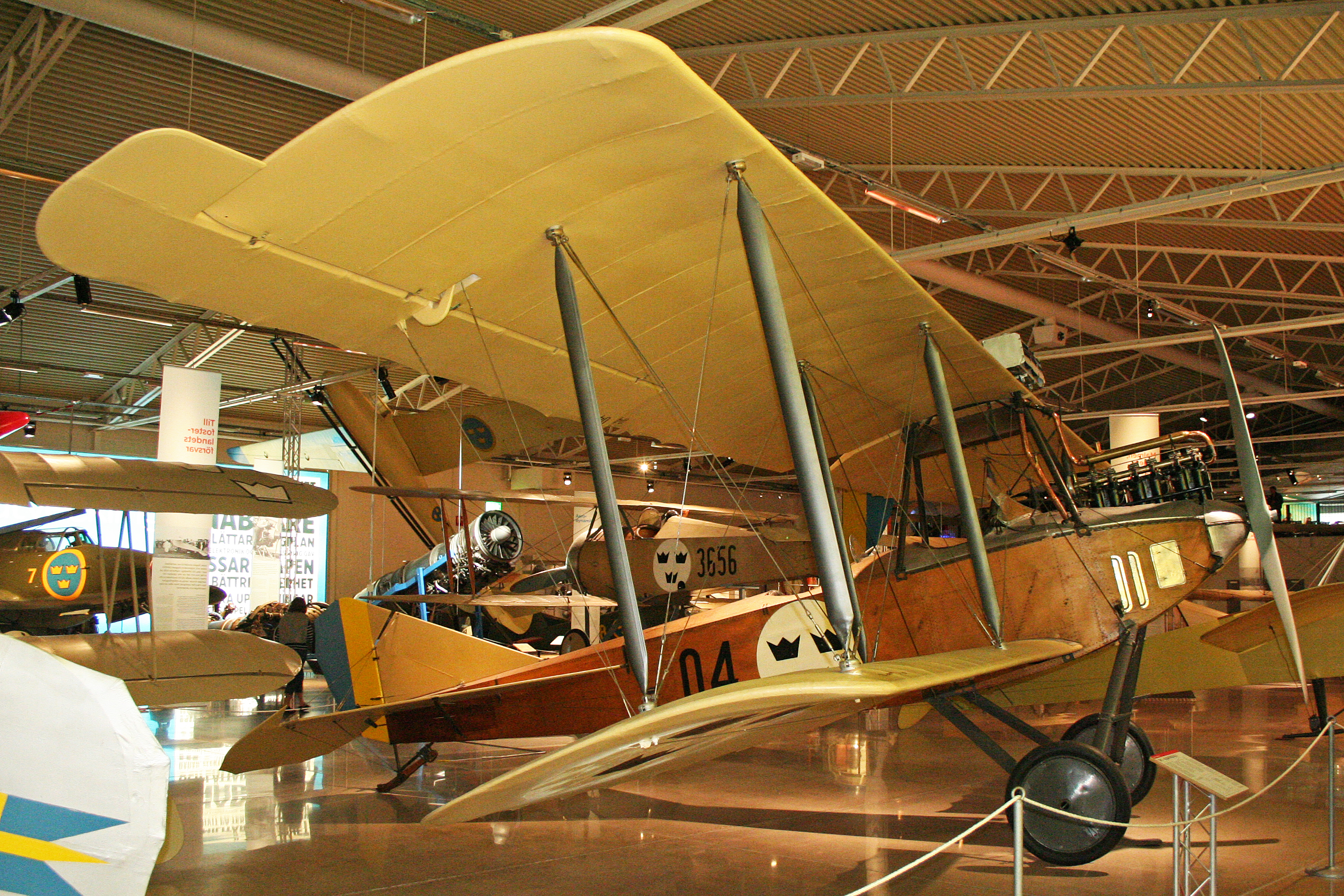 Also known as the Albatros 120 in Swedish service. The type served as a trainer from 1920 to 1929. This example was built in 1925. msn 464. Flyvapenmuseum, Malmen, Sweden. 04-6-2012